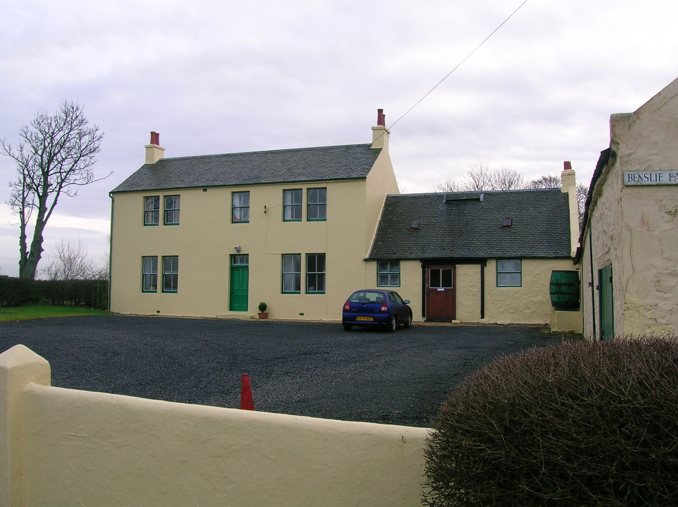 Benslie Fauld Farm, North Ayrshire, Scotland.